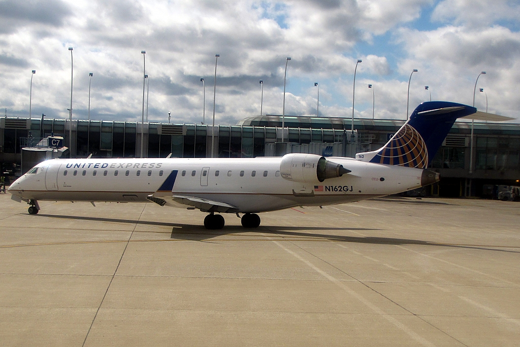 United Express Bombardier CRJ-700 aircraft operated by GoJet Airlines at O'Hare International Airport